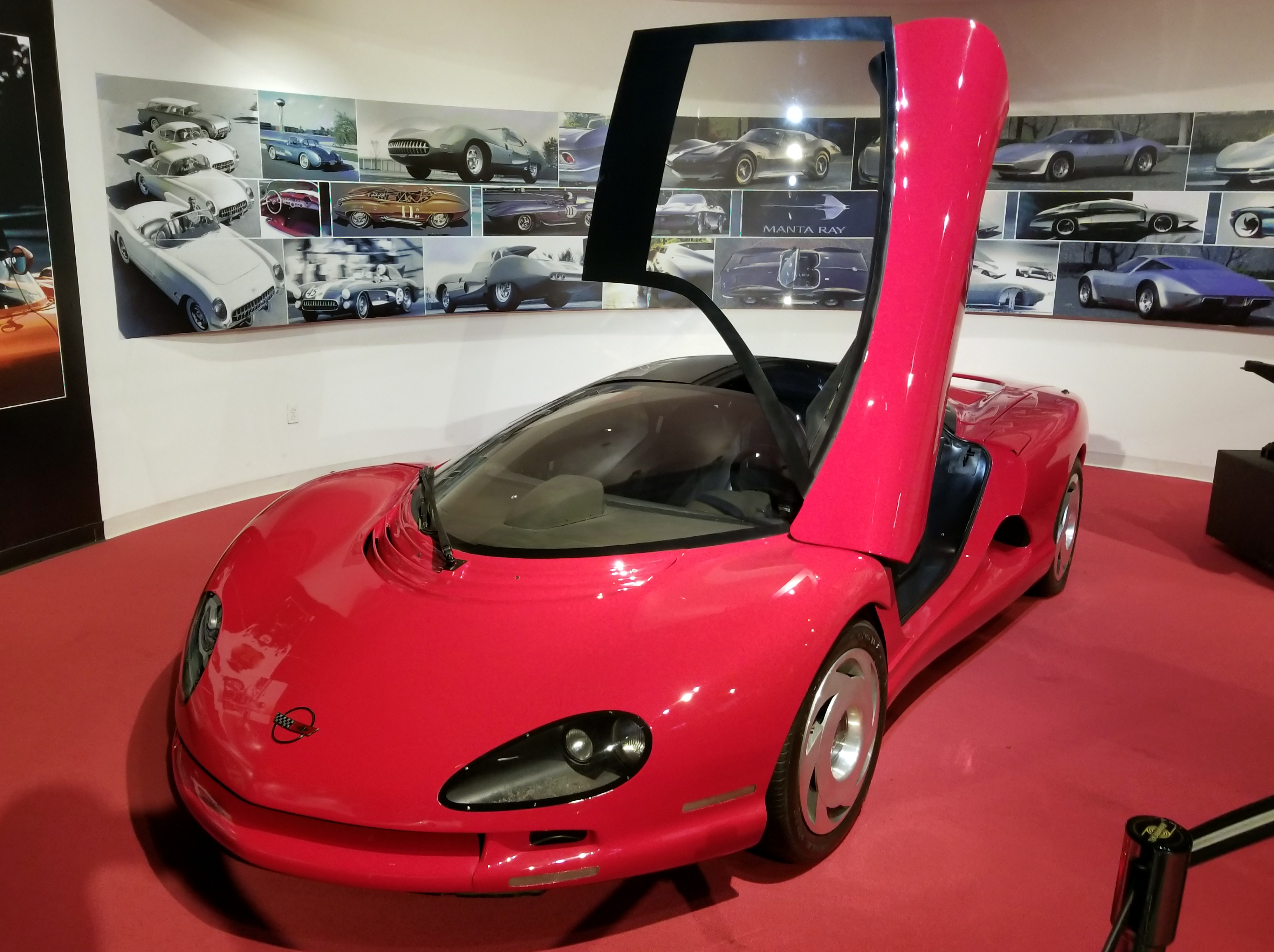 Picture of a 1986 Chevy Corvette Indy Concept taken at the National Corvette Museum in Bowling Green, KY.